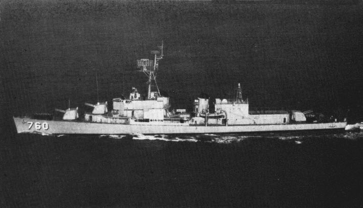 The U.S. Navy destroyer USS John W. Thomason (DD-760) after her FRAM conversion, in 1959-60. In March 1959, John W. Thomason entered Long Beach Naval Shipyard, California (USA), as prototype ship for the new Fleet Rehabilitation and Modernization (FRAM) program. During this extensive repair and modernization period she received a flight deck and hangar aft, variable depth sonar, the latest electronic equipment, and many improvements in living and working spaces. The conversion was followed by extensive trials and local training operations.